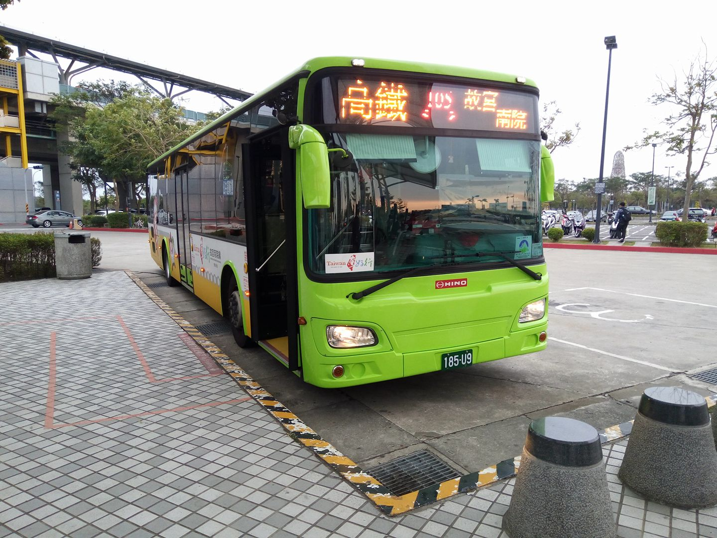 Chiayi County Bus Service Administration Route 105 185-U9 at THSR Chiayi Station.